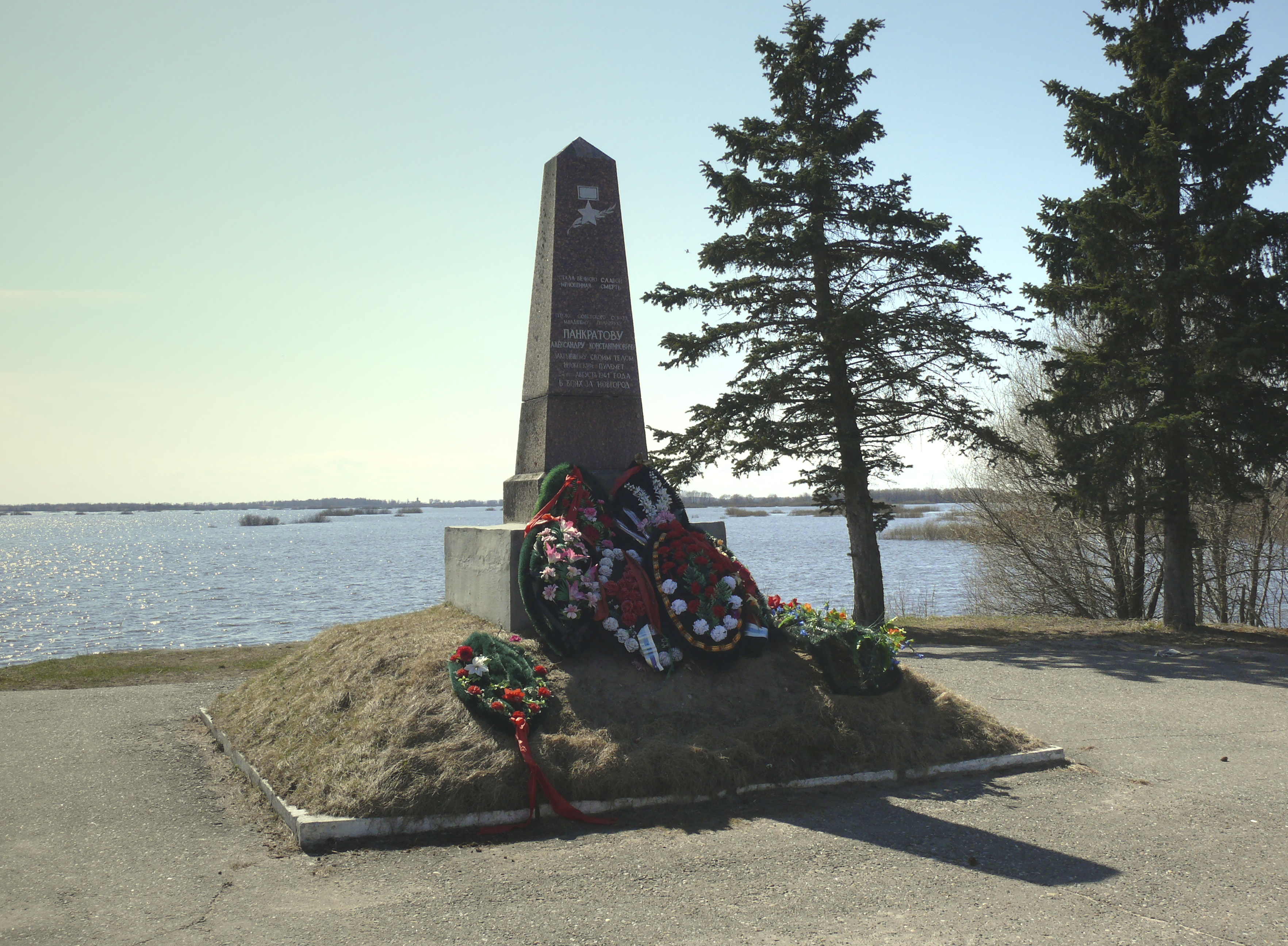 The Monument of Pankratov on the bank of Maly Volkhovets. Novgorodsky district, Novgorod oblast, Russia